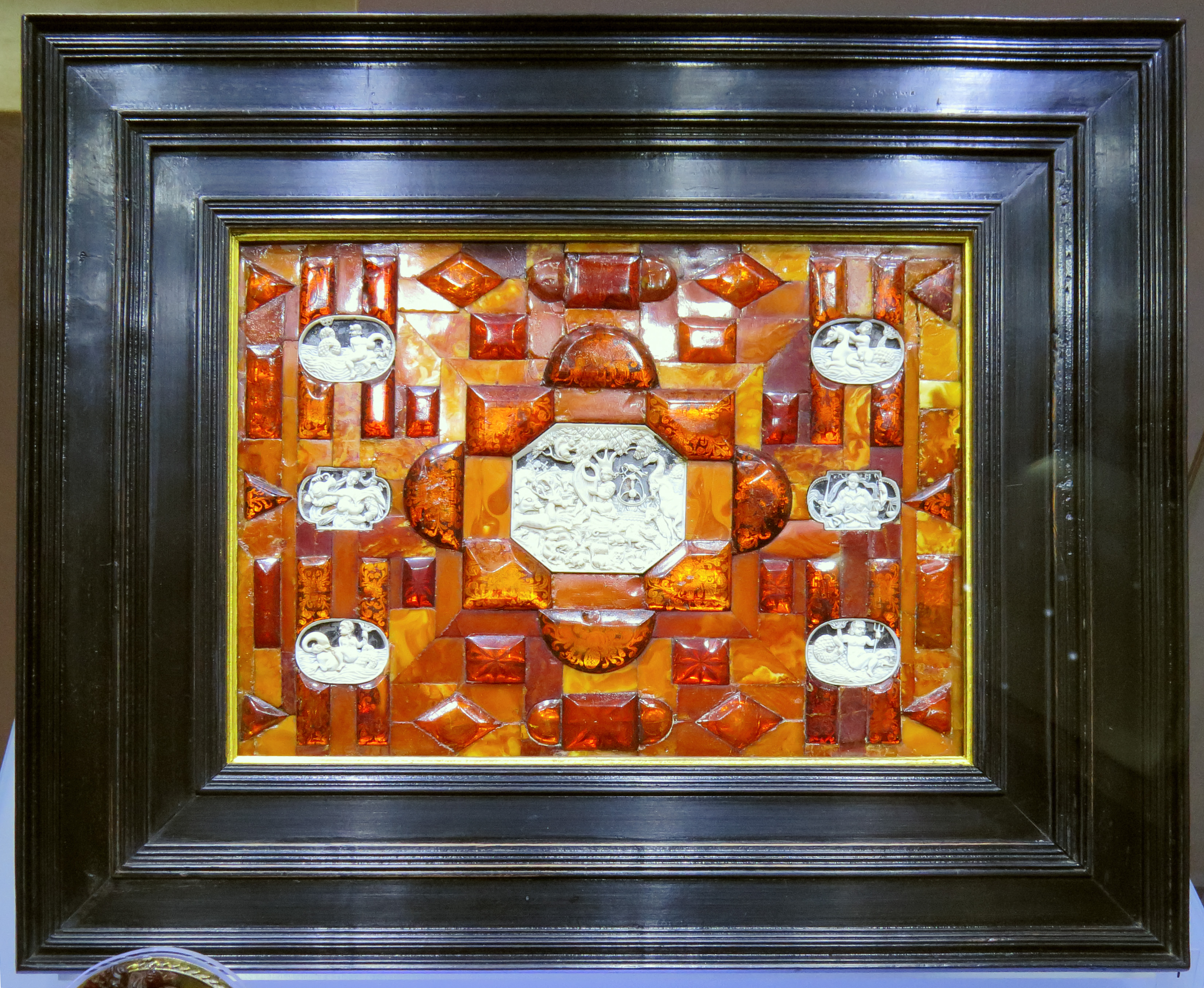 Collections in the Amber Museum in Gdańsk.